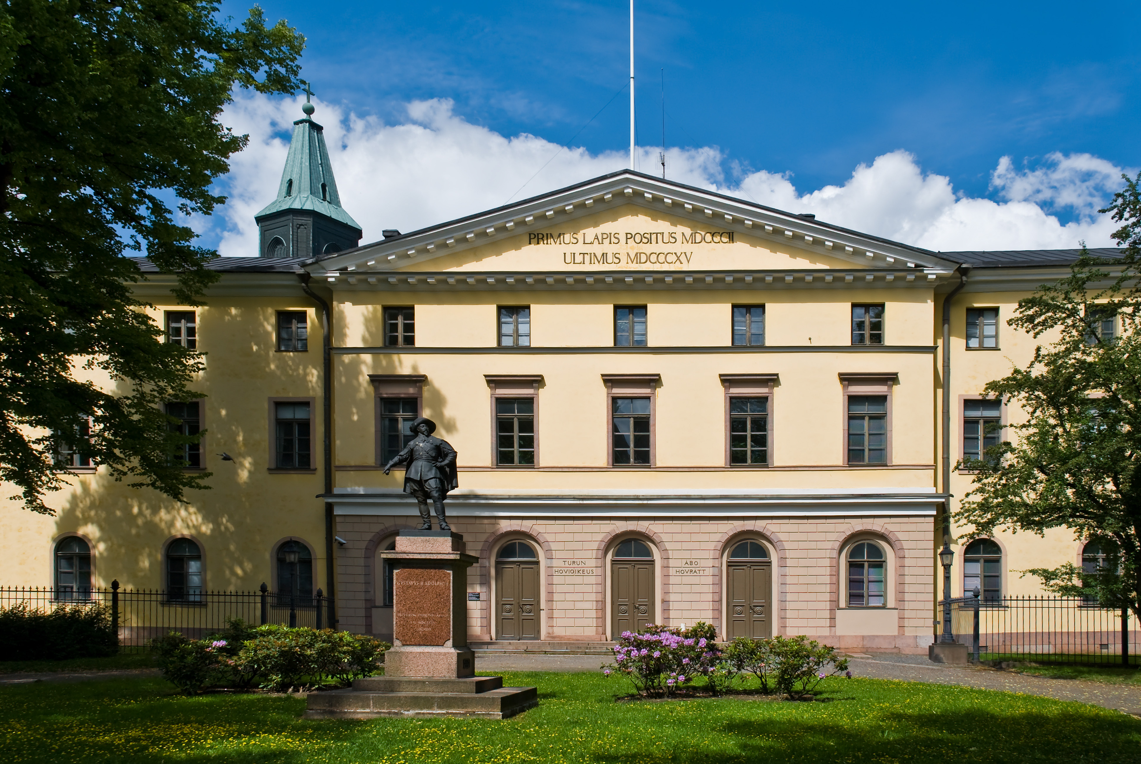 Court of Appeal, Academy House, Turku, with Turku Cathedral's tower on the background, and a statue of Gustav II Adolf, the founder of the Court of Appeal, on the foreground.